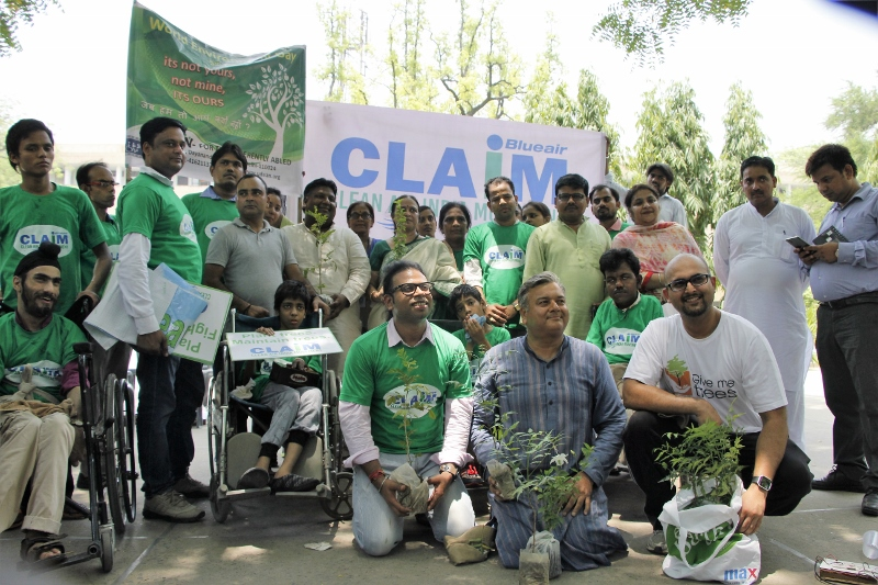 Clean Air India Movement the country’s biggest awareness programme against air pollution.